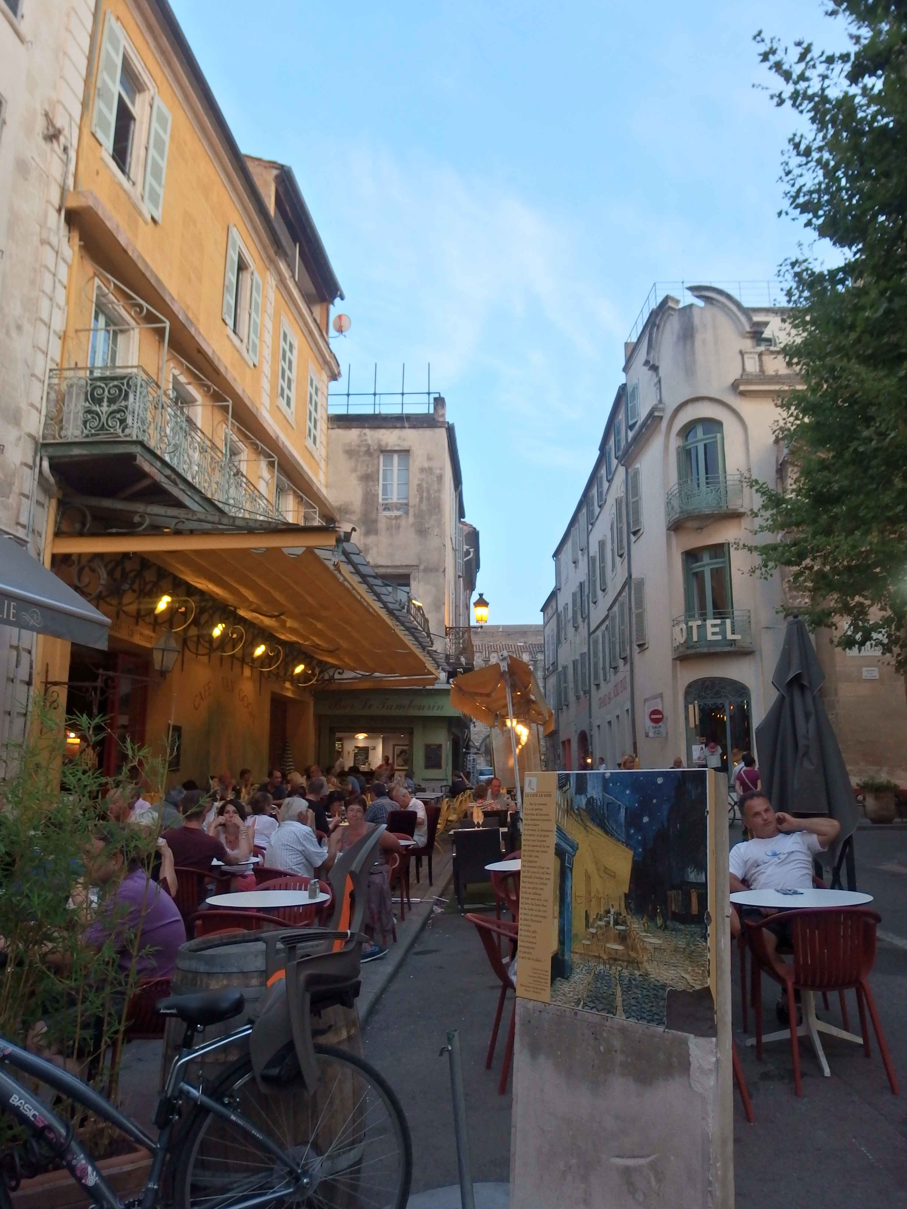 Arles, France. Place du Forum square, Café van Gogh.